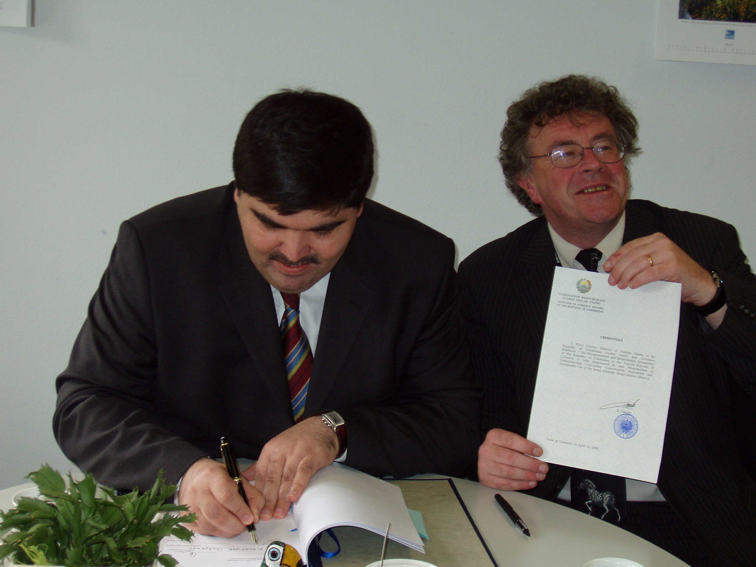 Signing of the Saiga Antelope MoU by Uzbekistan (Gulyamov Bakhtiyar, Ambassador of the Republic of Uzbekistan in Germany and Robert Hepworth, former UNEP/CMS Executive Secretary.